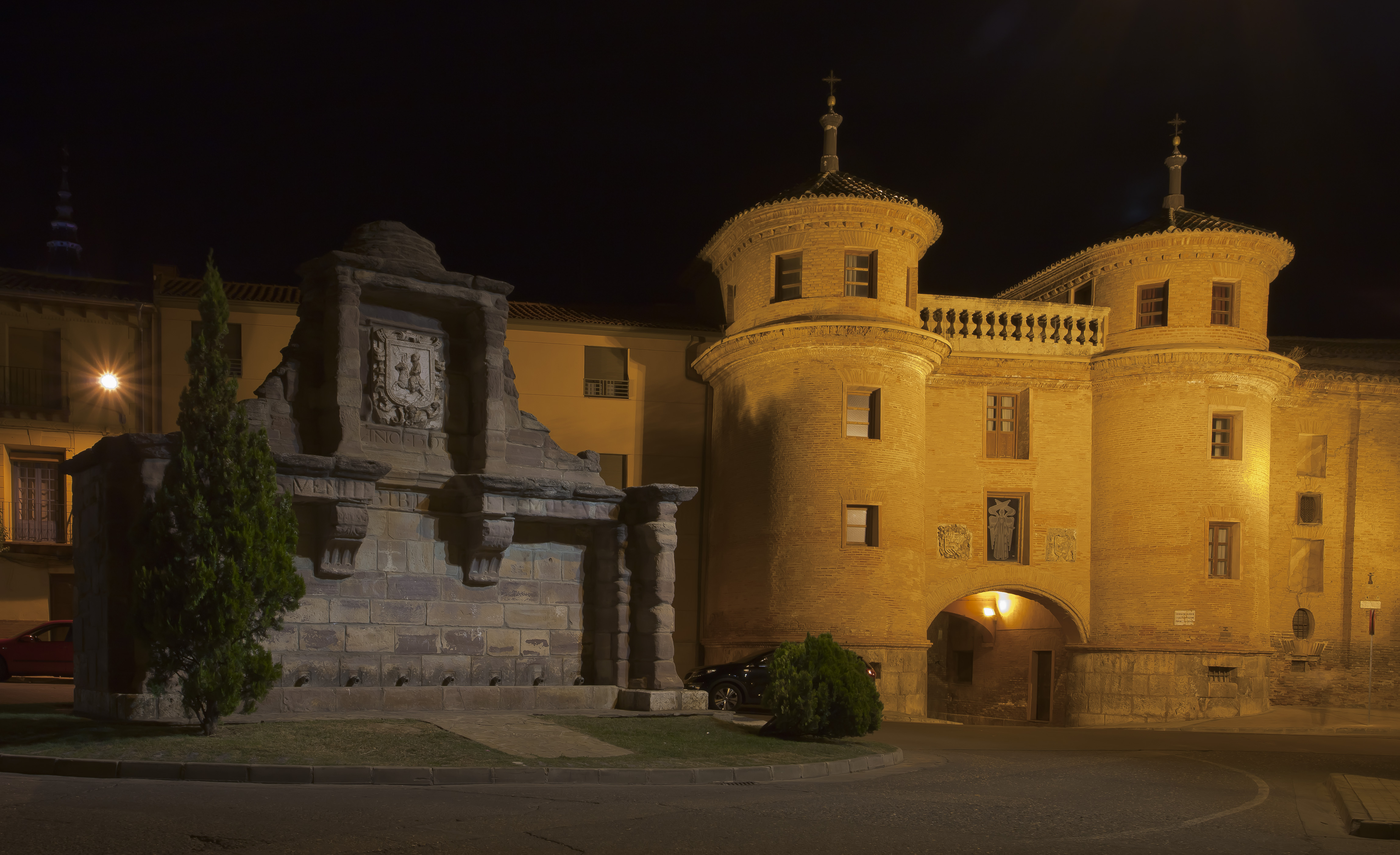 Gate of Terrer, Calatayud, Spain